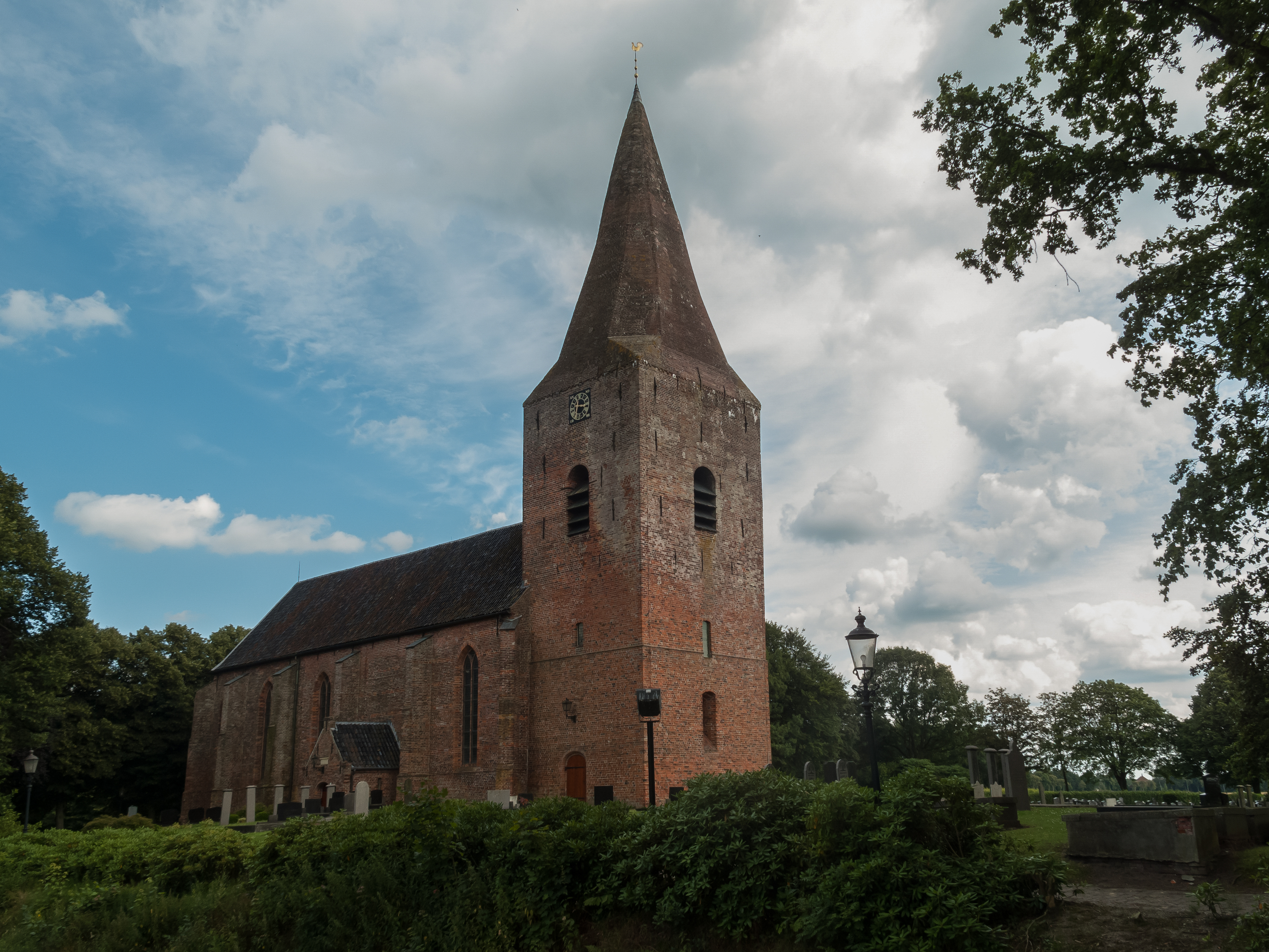 Onstwedde, church: de Nicolaaskerk